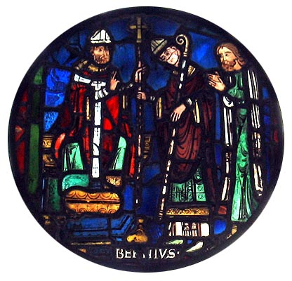 Stained glass roundel in Dorchester Abbey, Oxfordshire, representing the commissioning of Birinus (centre) by Asterius (left). Photo from David Nash Ford's Early British Kingdoms website.